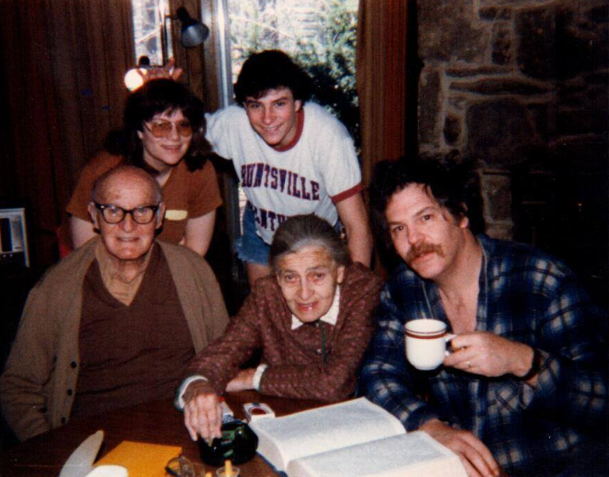 A picture of the Weisskopf family Dec